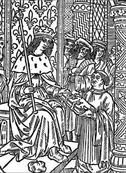 Woodcut featuring 15th century Paris publisher Antoine Vérard presenting a book to King Charles VIII of France